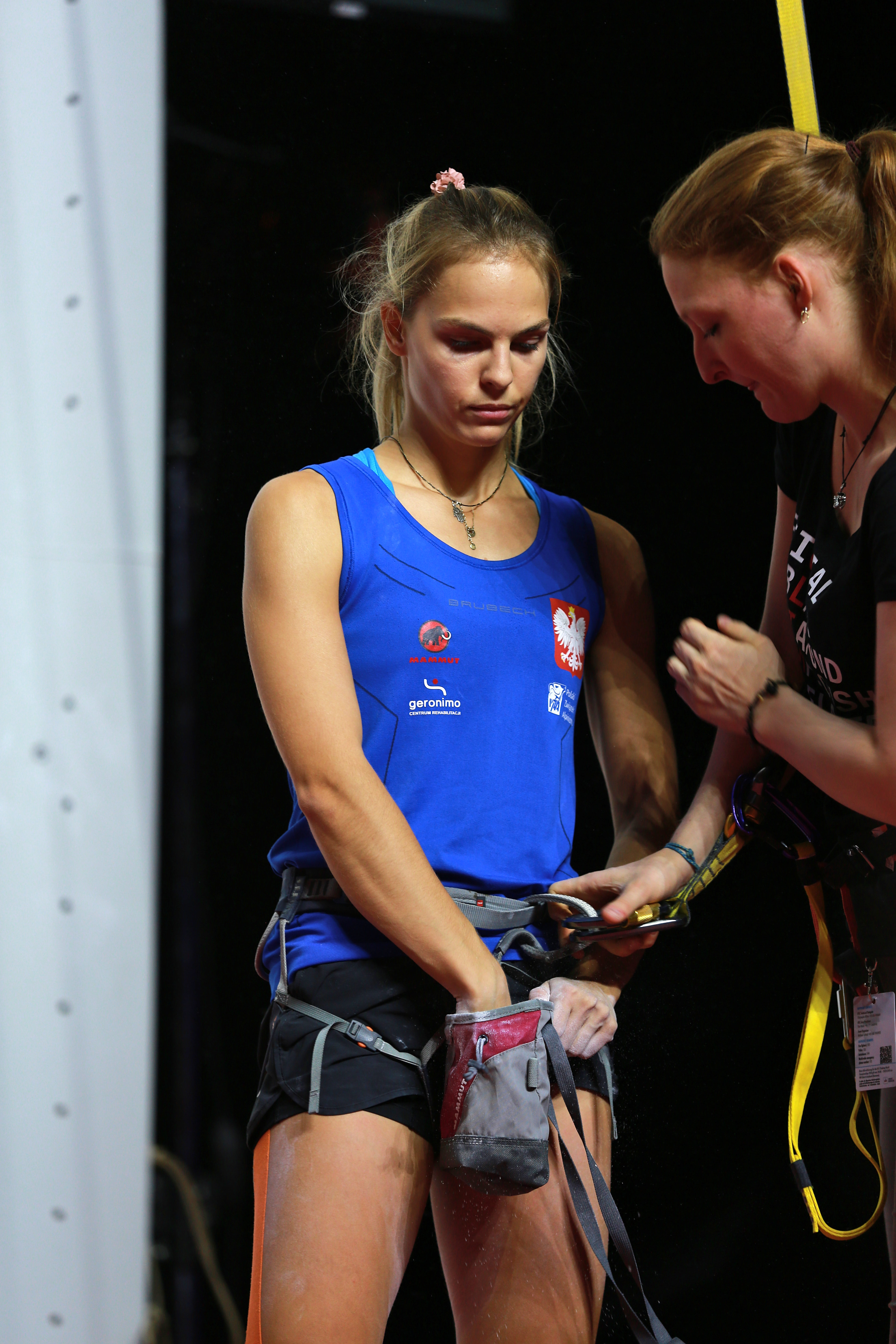 Climbing World Championships 2018 Speed Final Brożek and Jaubert